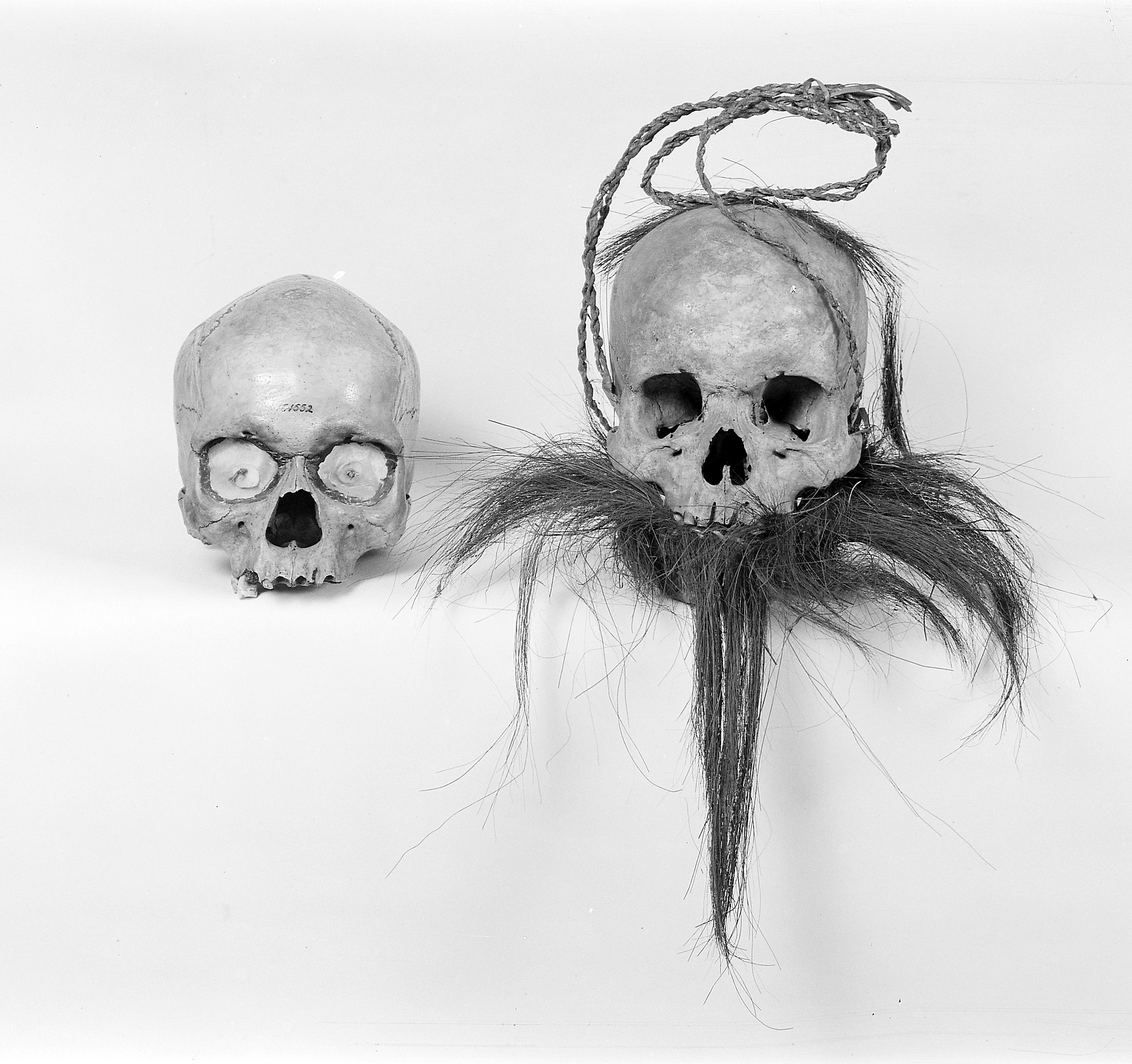 Divinatory Skulls: 1)Dyke Bay, New Guinea. 2)Nias Island Wellcome Images Keywords: Medicine, Traditional; Primitive Medicine